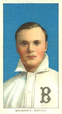 T206 baseball card of Bill Malarkey.